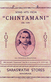 Label of gramaphone records for Tamil film Chintamani marketed by Saraswathi Stores